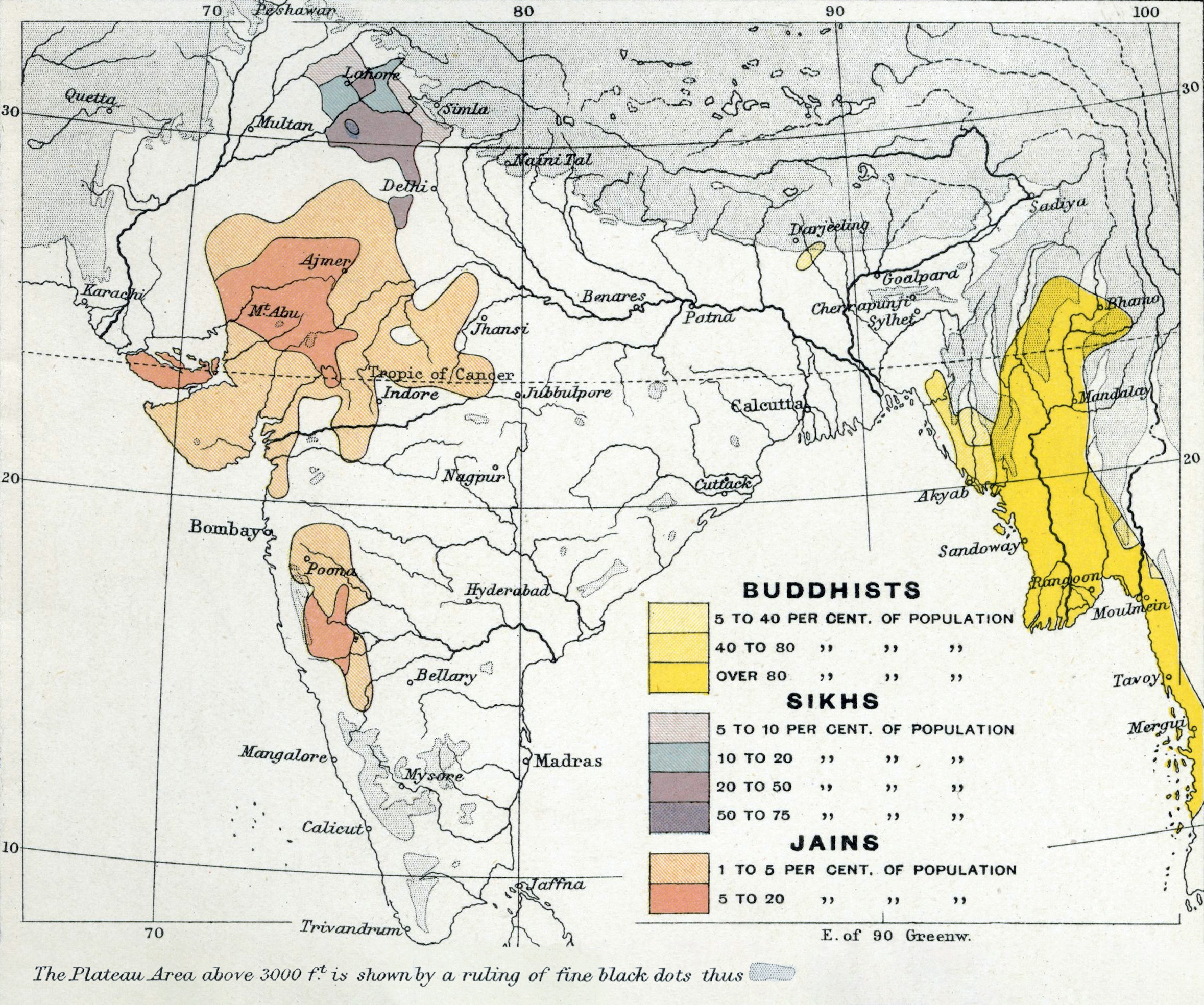 Map "Prevailing Religions of the British Indian Empire, 1909: Sikhs, Buddhists, Jains" from the Imperial Gazetteer of India, Oxford University Press, 1909.